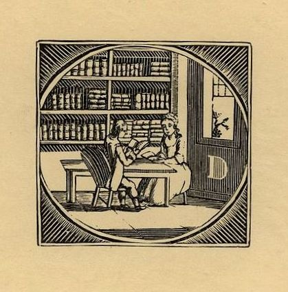 Pictorial Bookplate. Subjects: Children; Reading; Libraries.